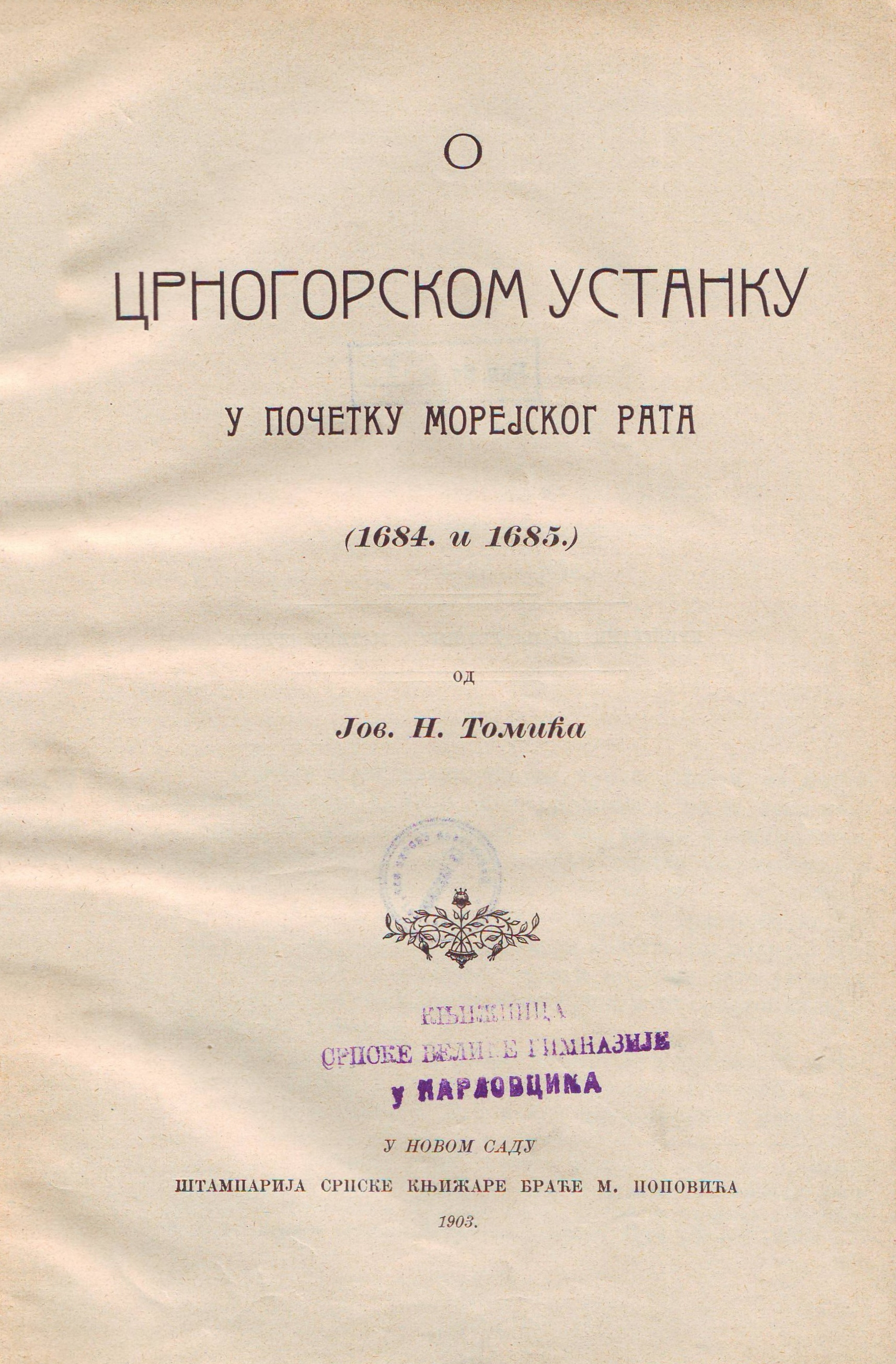 Cover of O crnogorskom ustanku u početku Morejskog rata (1903) by Jovan N. Tomić. Srpski (latinica): Naslovna strana knjige O crnogorskom ustanku u početku Morejskog rata (1903) Jovana N. Tomića.